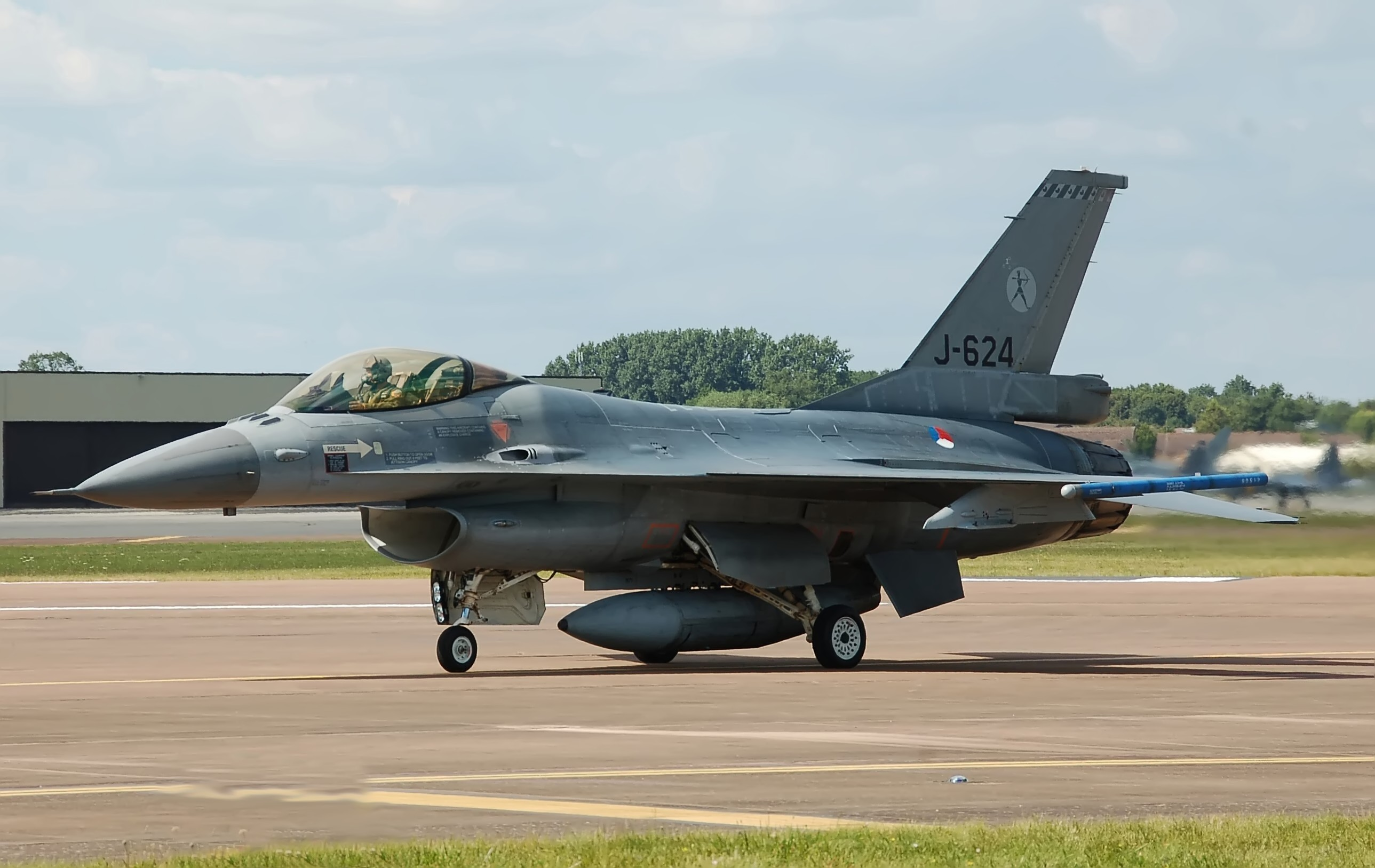 Royal Netherlands Air Force F-16 (J-624) arrives for the 2014 Royal International Air Tattoo, RAF Fairford, Gloucestershire, England.